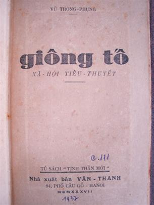 The cover of Vu Trong Phung's novel Giong To published by Van Thanh Publisher in 1937.